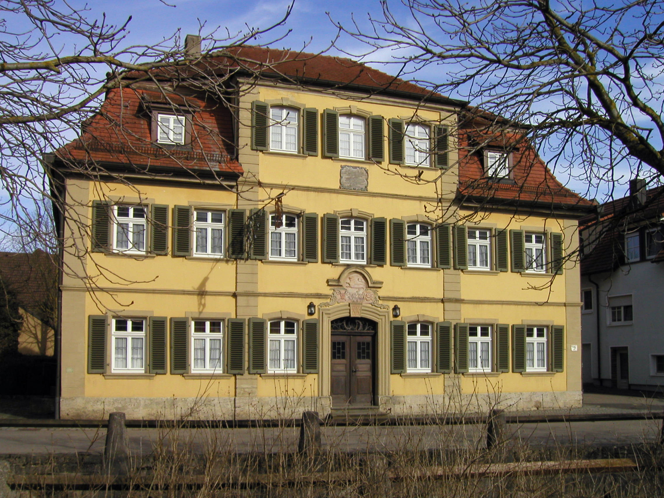 The former district´s bureau in Oberstetten